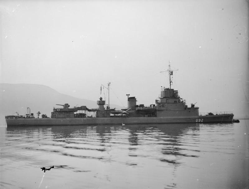 The Free French Navy during the Second World War FFS LA CAPRICIEUSE at Holy Loch. The minesweeper and patrol vessel was built for the French Navy under the 1937 programme.